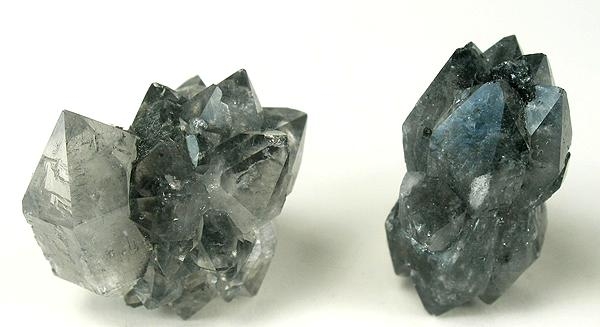 Quartz, Aerinite Locality: Olvera Ophite, Olvera, Cádiz, Andalusia, Spain (Locality at ) Size: 2.4 x 2.2 x 1.6 cm (largest). A rare and superb, 4-piece set of striking, glassy, lustrous, blue-gray, dipyramidal quartz crystals colored by aerinite inclusions from near Malaga, Spain. Aerinite is a rare silicate, found worldwide almost exclusively in Spain. Each of the four, pristine compound crystals has unique character. A well-written article on this find is found in the Mineralogical Record, Volume 27, Number 2, March/April, 1996.